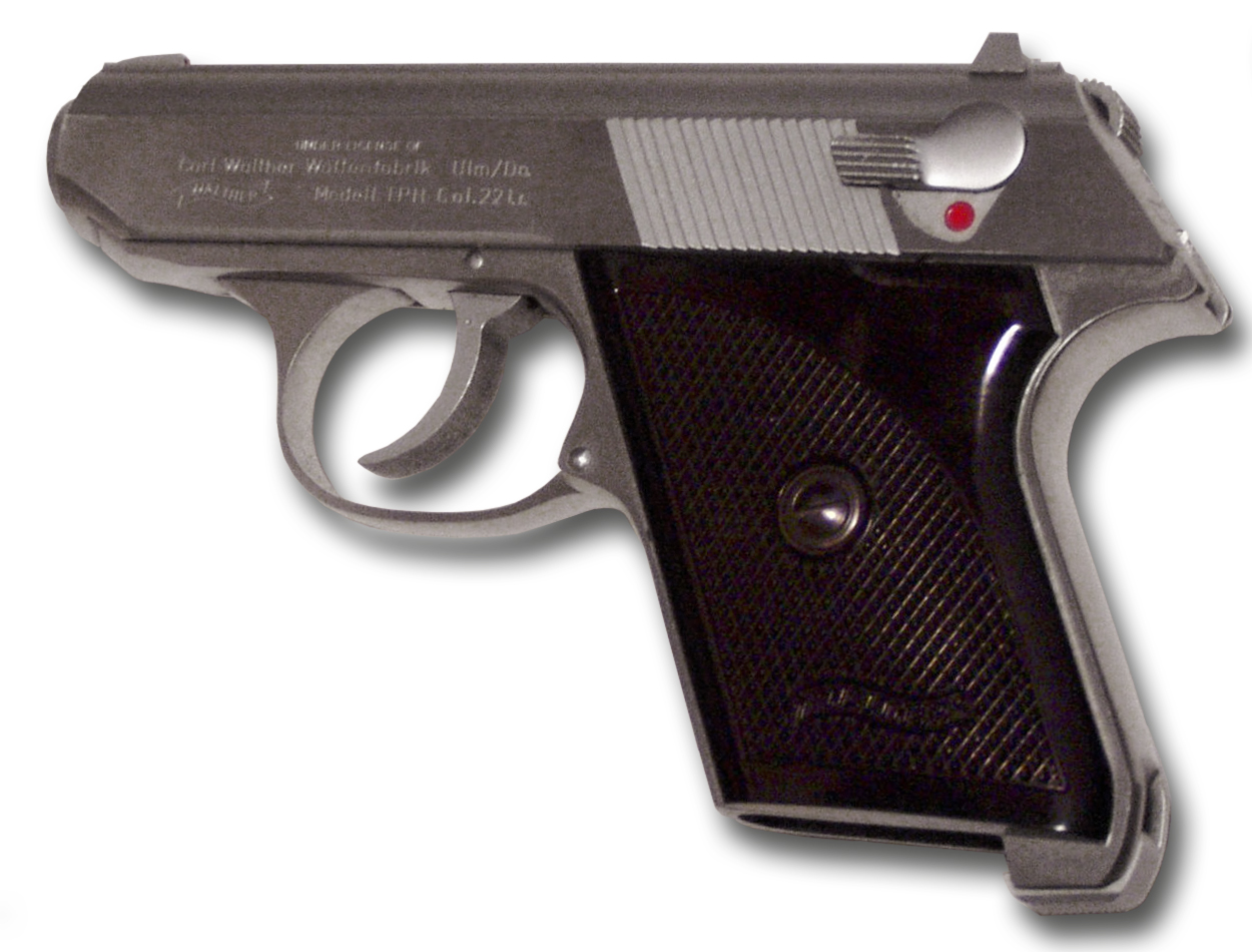 This image of the right side of a Walther TPH pistol was taken by George William Herbert (Georgewilliamherbert) on Jan 22, 2006. This image remains copyrighted, but is available for Wikipedia or any other use under the Creative Commons - Attribution Share Alike License rev 2.5.